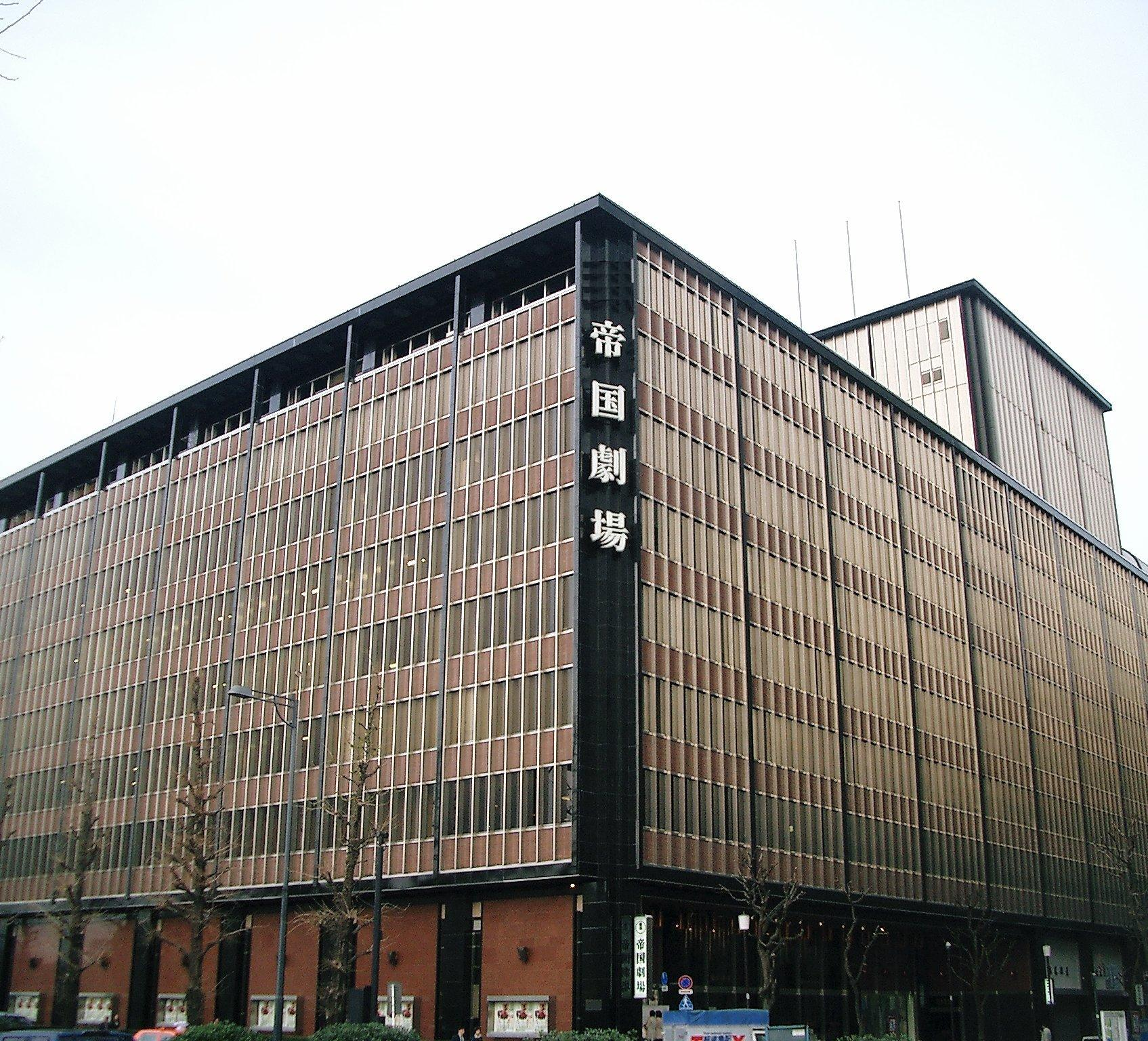 Imperial Garden Theater 帝国劇場